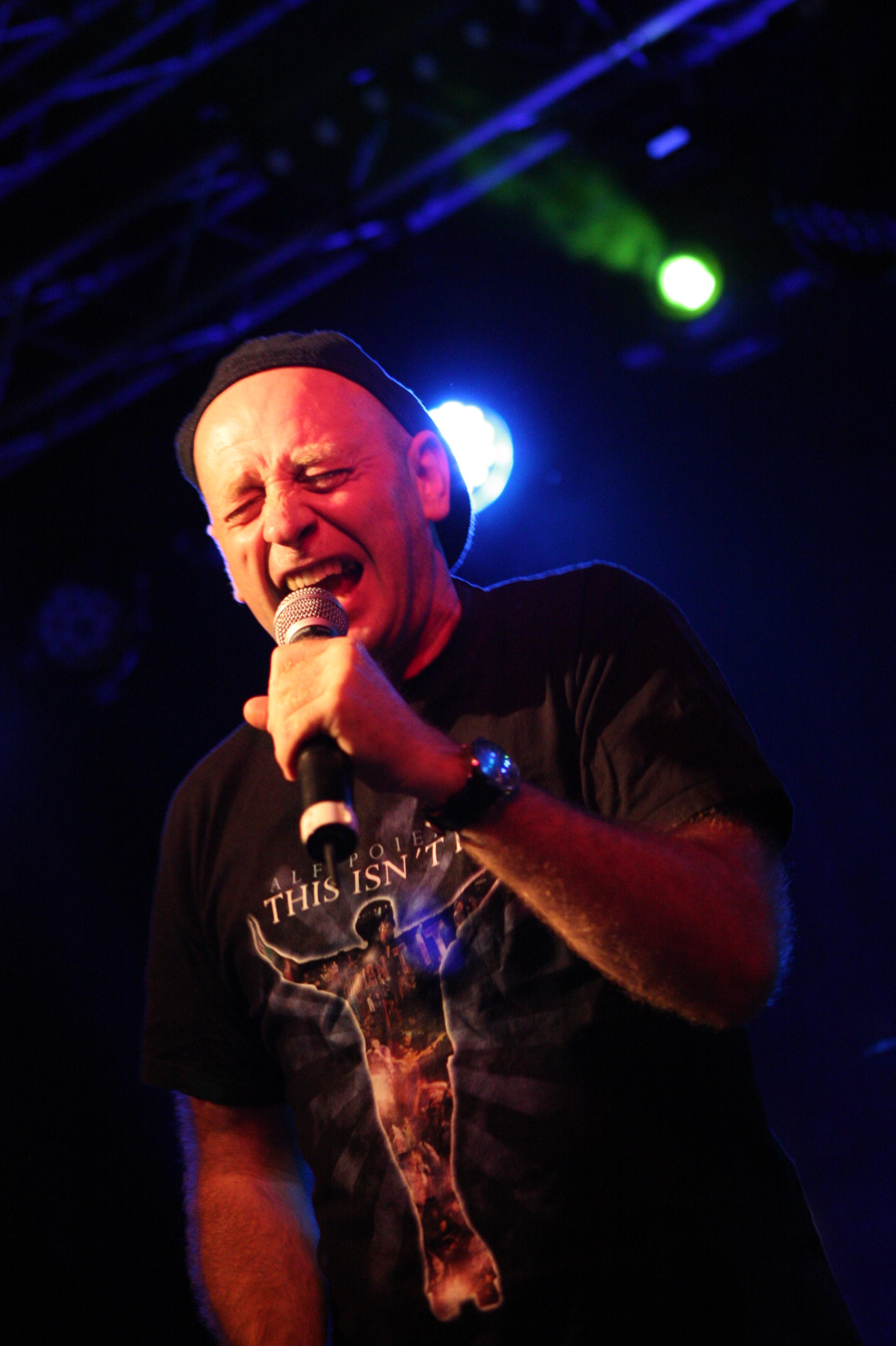 Alf Poier, Austrian artist, musician and stand-up comedian, performing at the Picture On Festival in Bildein (2012-08-10)